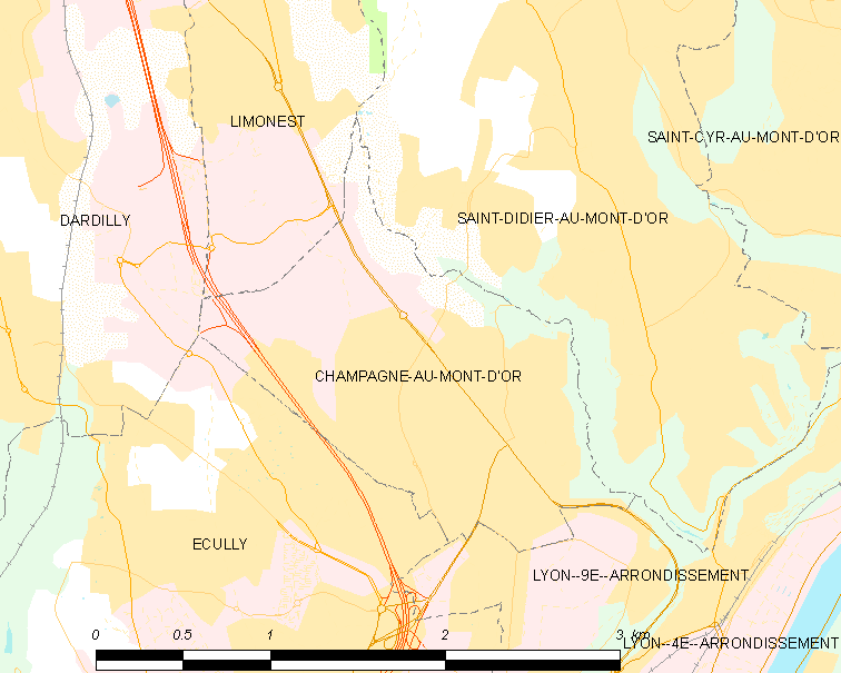 Map of French municipality